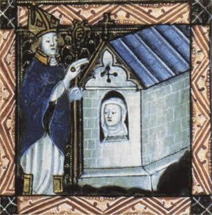 Depiction of a bishop blessing an anchoress found in the manuscript, MS 079: Pontifical, held at Corpus Christi College, Cambridge, and dated c. 1400 and c. 1410.